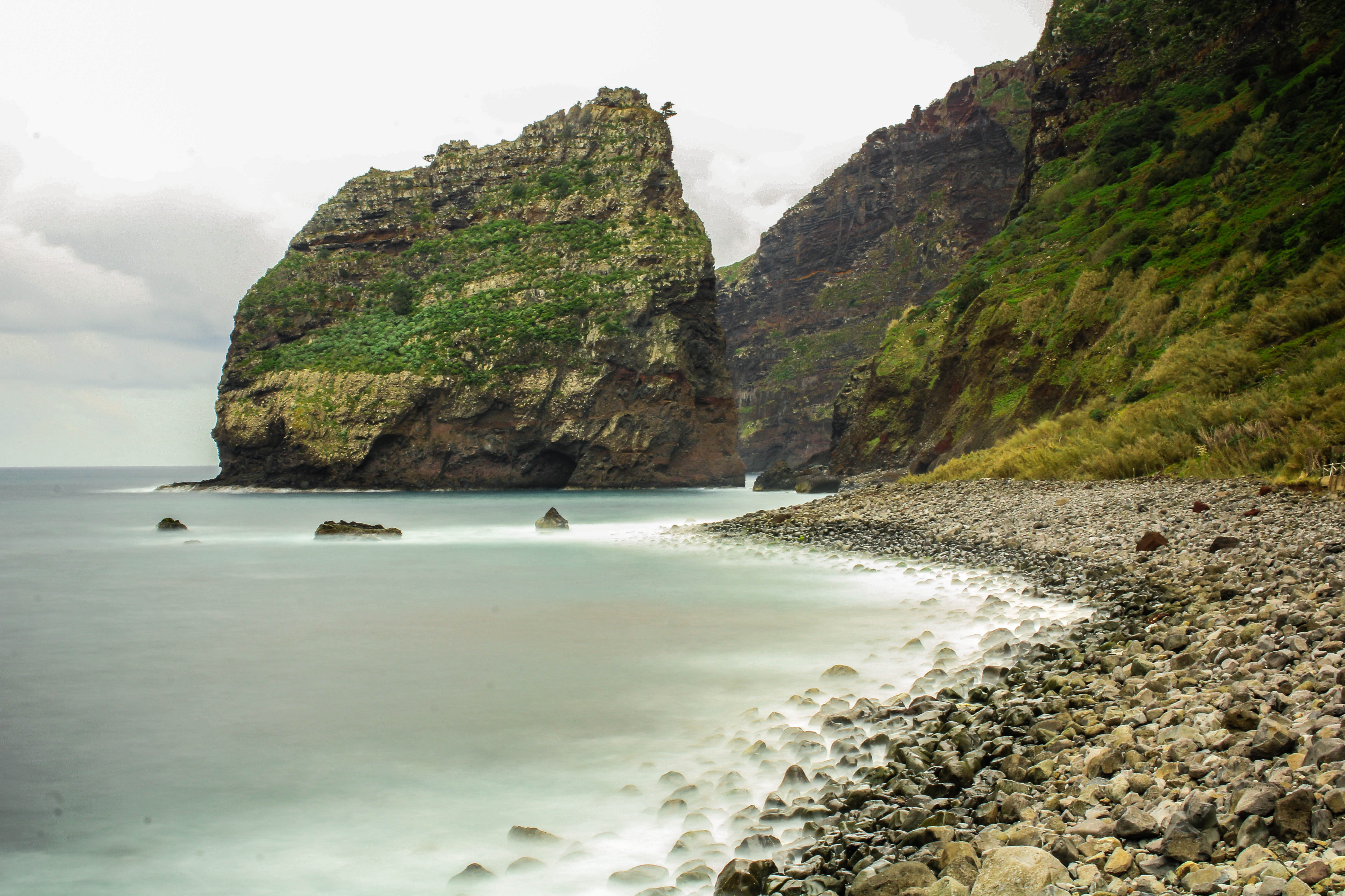 This is a photography of a protected area of Portugal indexed in the World Database on Protected Areas with the ID: Reserva Natural do Sítio da Rocha do Navio (Natural do Sítio da Rocha do Navio WDPA)